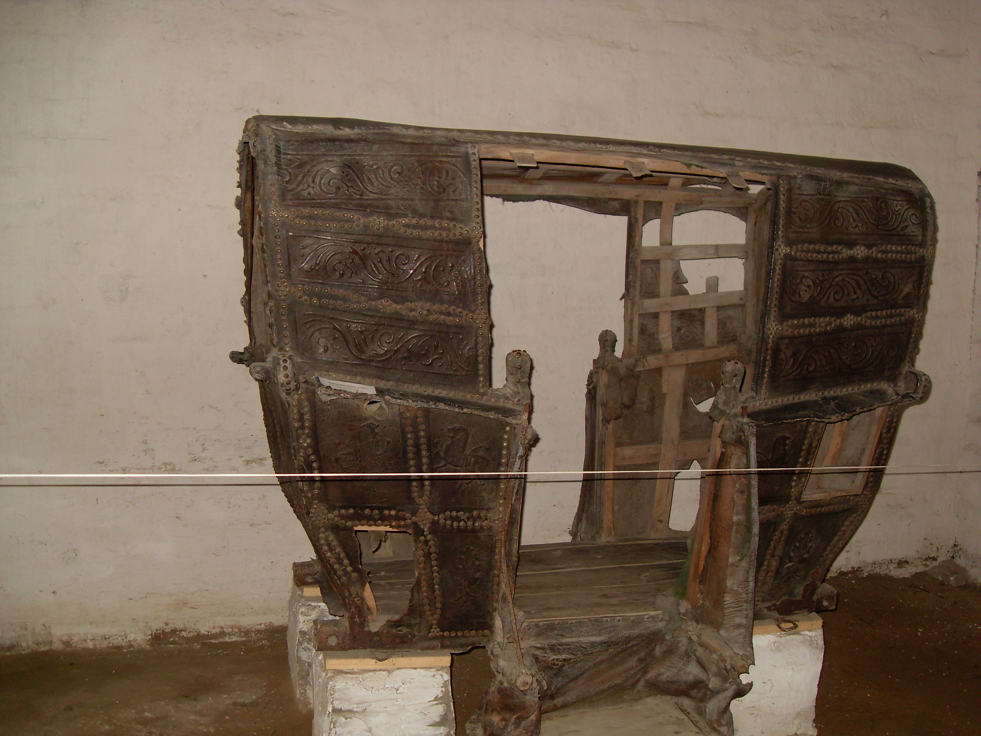 Baron of Stroganov. OK. 1720, Austria. Leather, wood, metal, embossing. Solvychegodsky Museum of History and Art